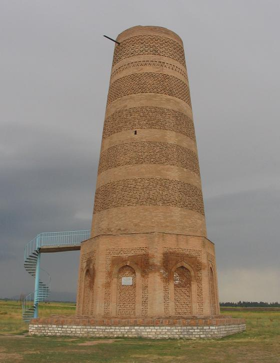 A view of the Burana Tower in Kyrgyzstan. Category:Images of Kyrgyzstan